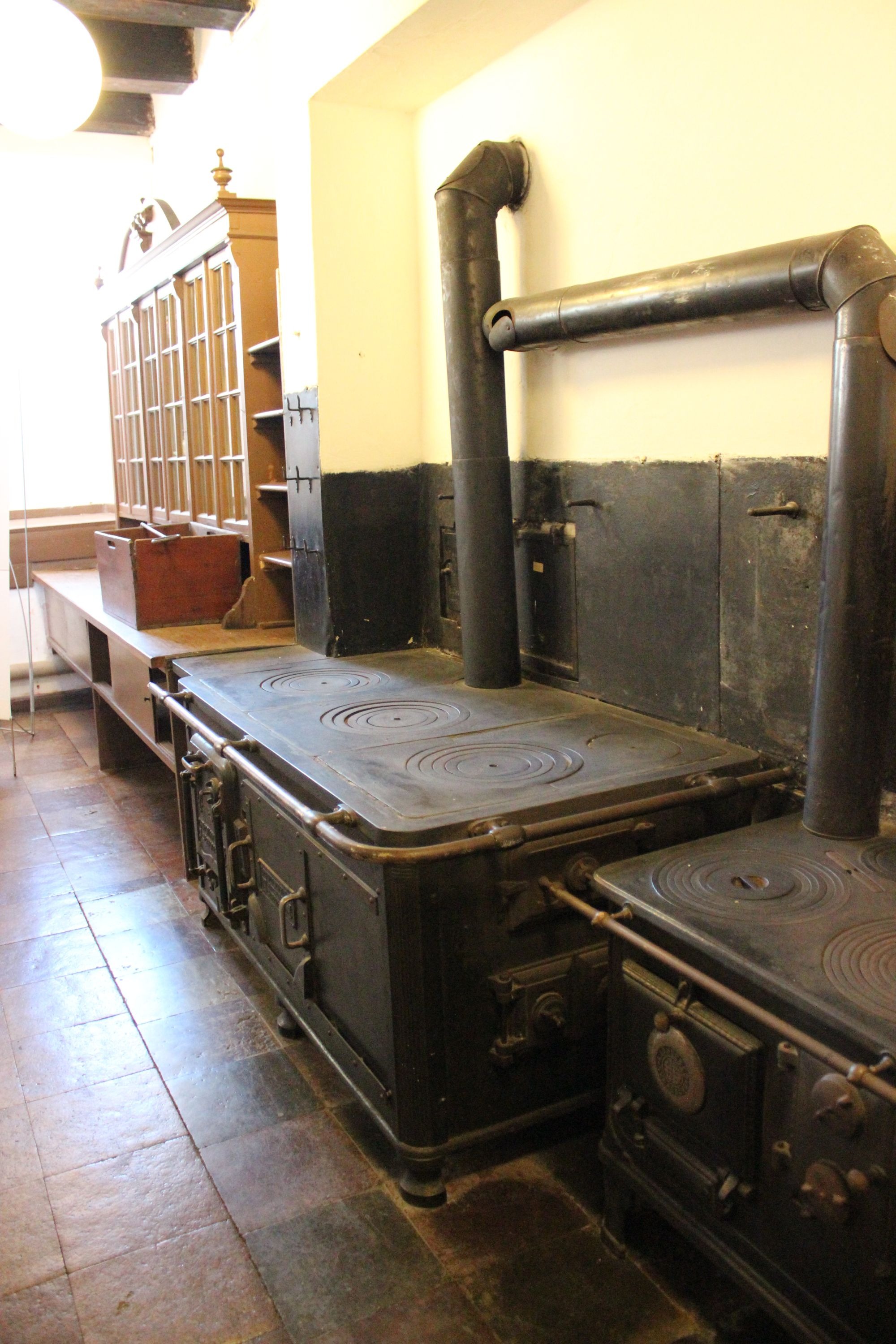 Kitchen